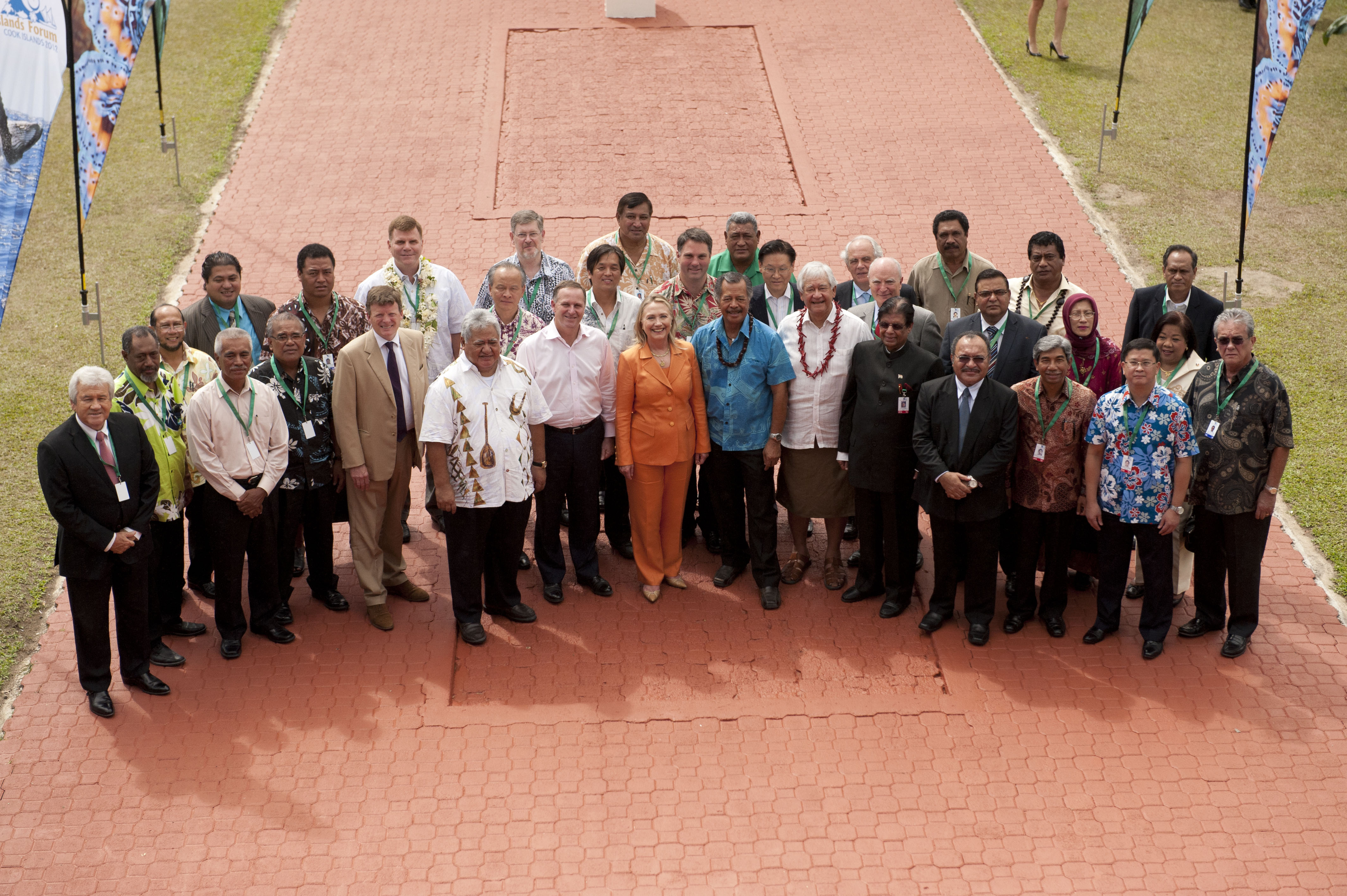 U.S. Secretary of State Hillary Rodham Clinton and delegates to the Pacific Islands Forum pose for a family photo at the Cook Islands National Auditorium, August 31, 2012. [State Department photo by Ola Thorsen/ Public Domain]